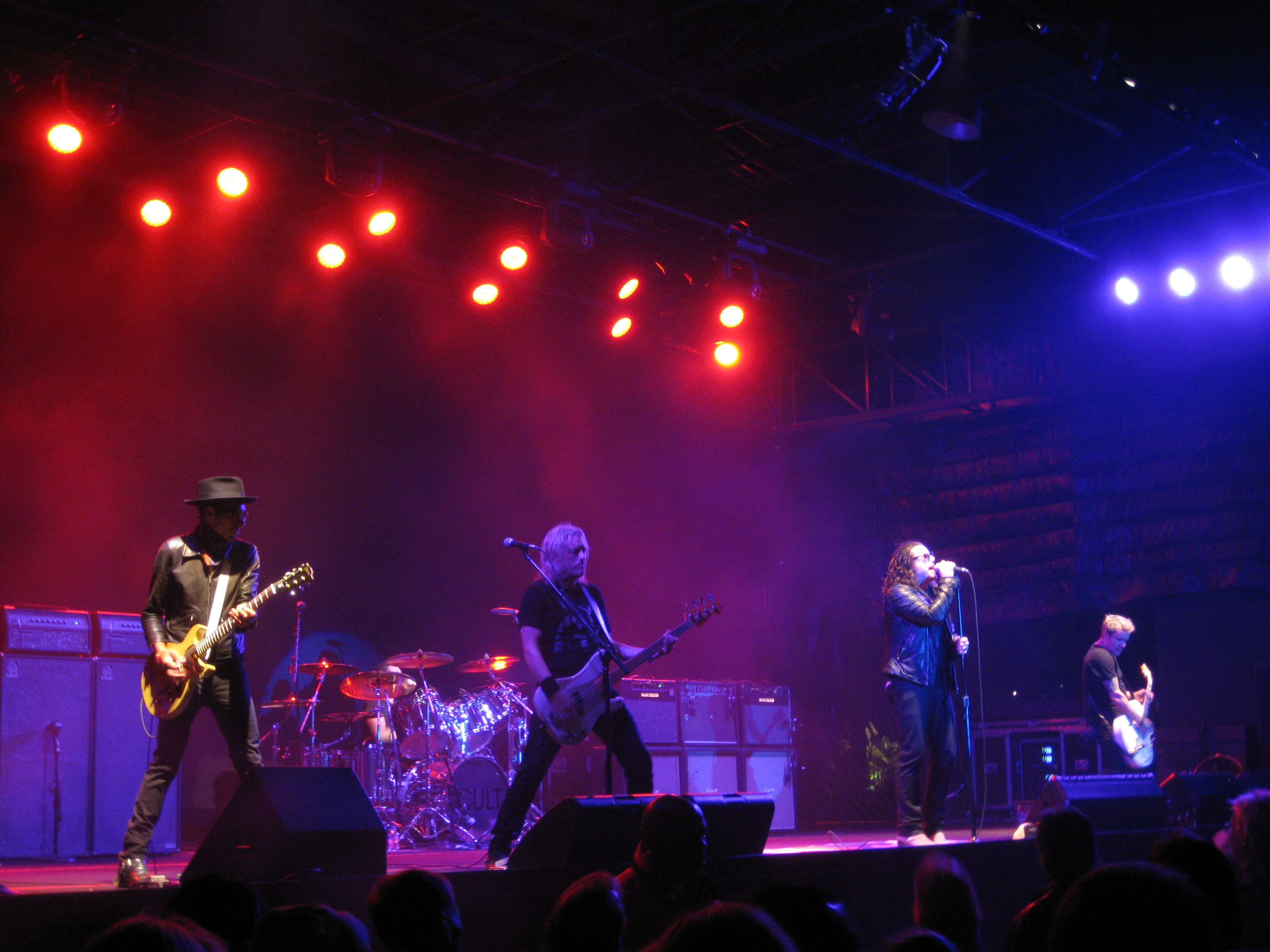 The Cult performing May 25, 2012 at Humphreys Concerts by the Bay in San Diego, California. Left to right: guitarist Mike Dimkich, bassist Chris Wyse, singer Ian Astbury, and guitarist Billy Duffy. Behind: drummer John Tempesta.